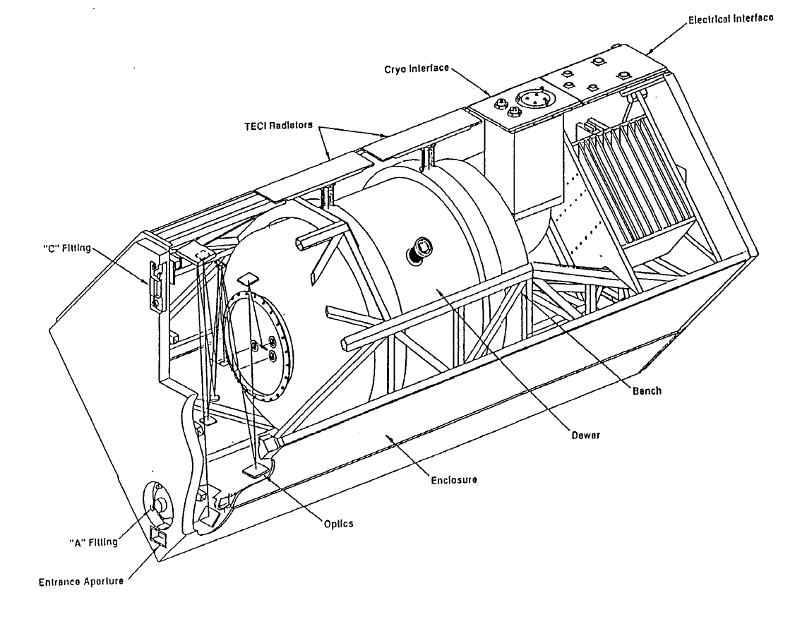 NICMOS cross cut